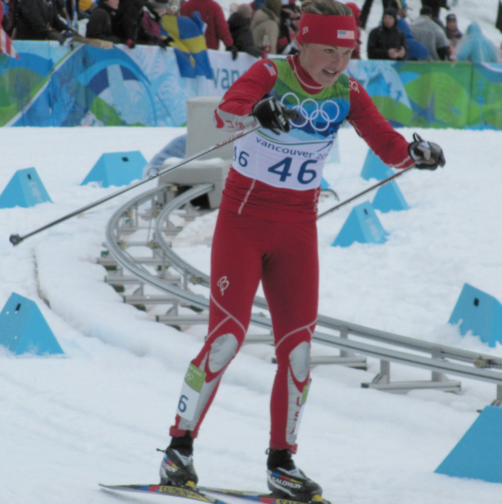 Holly Brooks at the Ladies' 30 km mass start cross-country skiing classic on day 16 of the 2010 Vancouver Winter Olympics at Whistler Olympic Park Cross-Country Stadium, British Columbia, Canada.